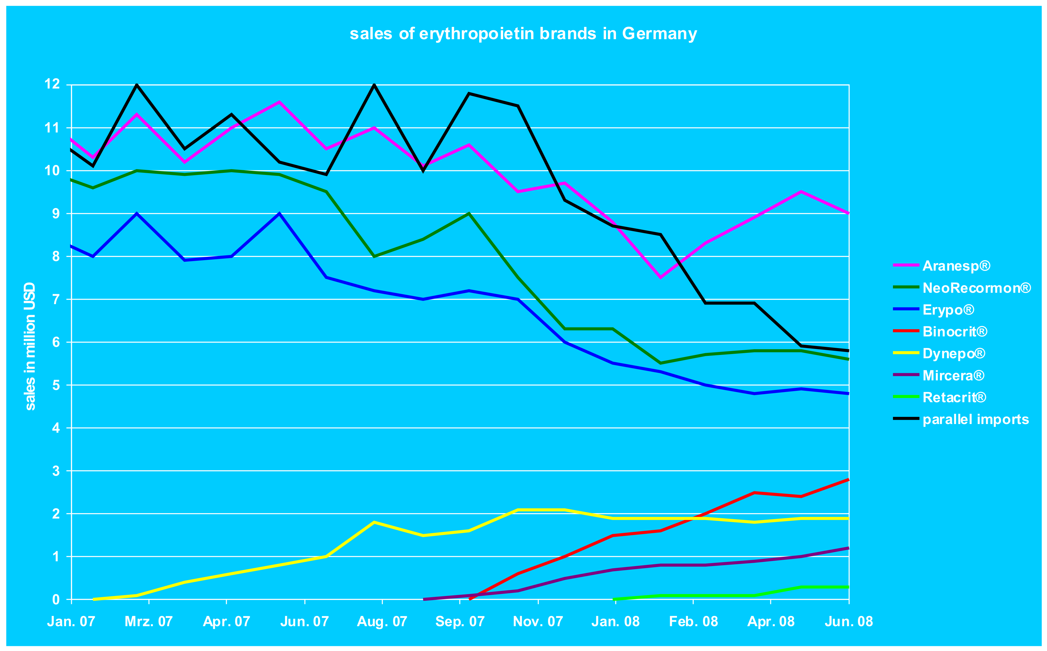 sales of the standard erythropoietin brands in Germany after the release of new and biosimilar erythropoietins